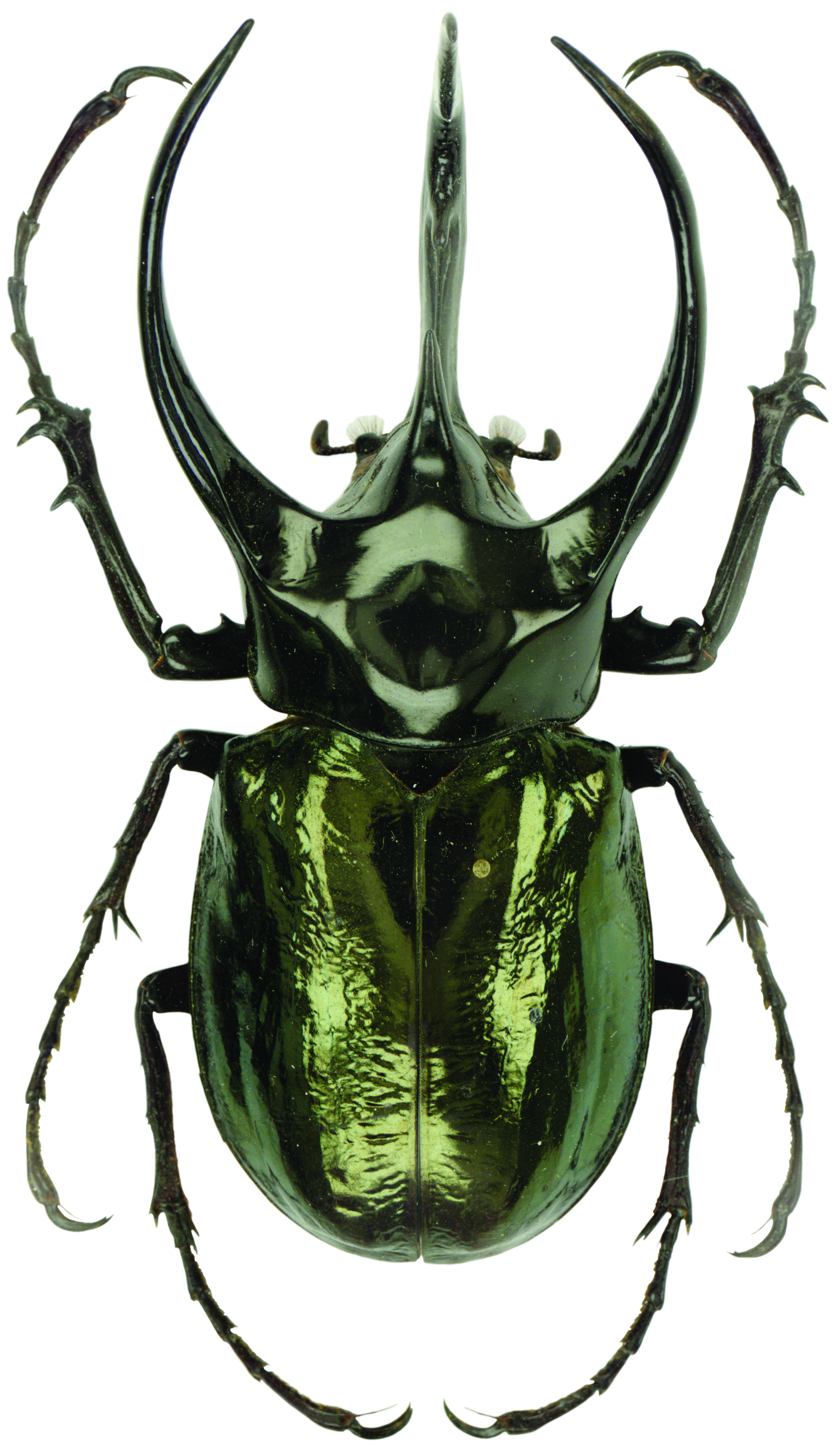 Species: Chalcosoma atlas, male individual, from the insect box scan project, edited for reuse by Kati